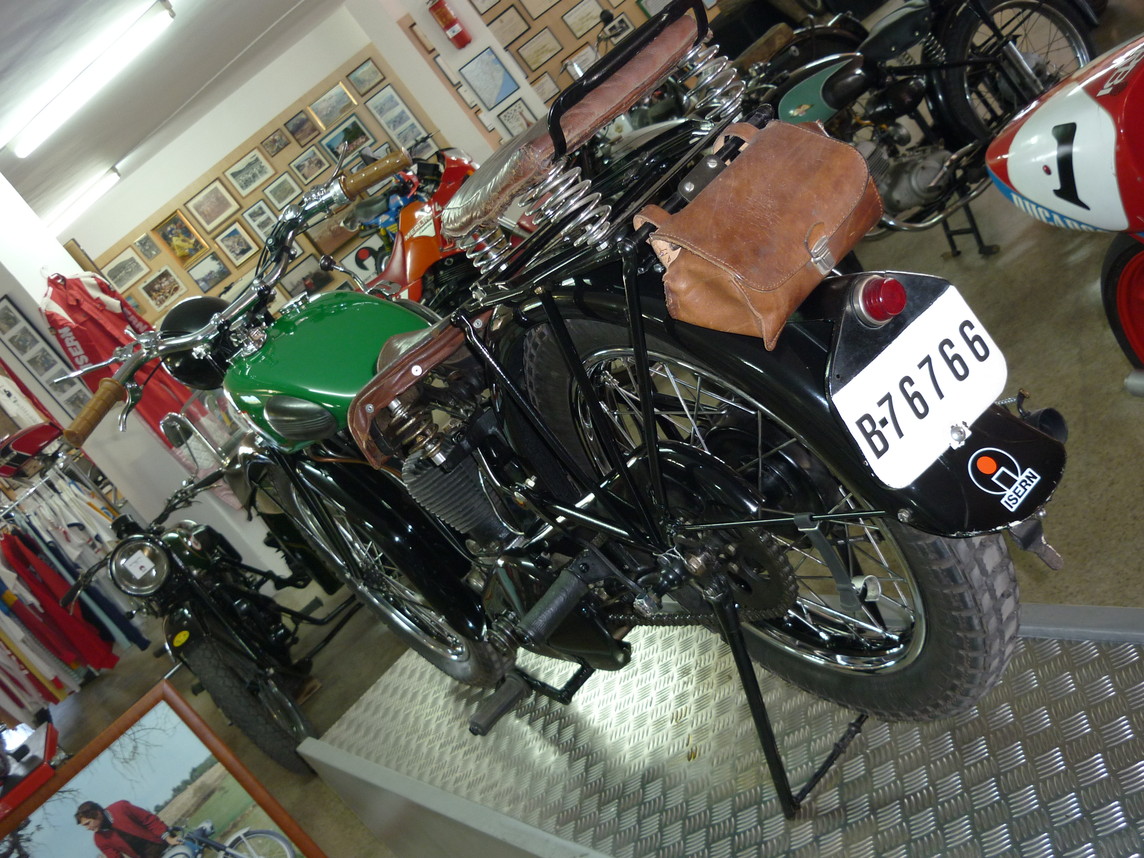 BSA 350cc from 1928, adapted by Jaume Isern with some changes. Isern Motorcycle Museum, Mollet del Vallès (Catalonia).